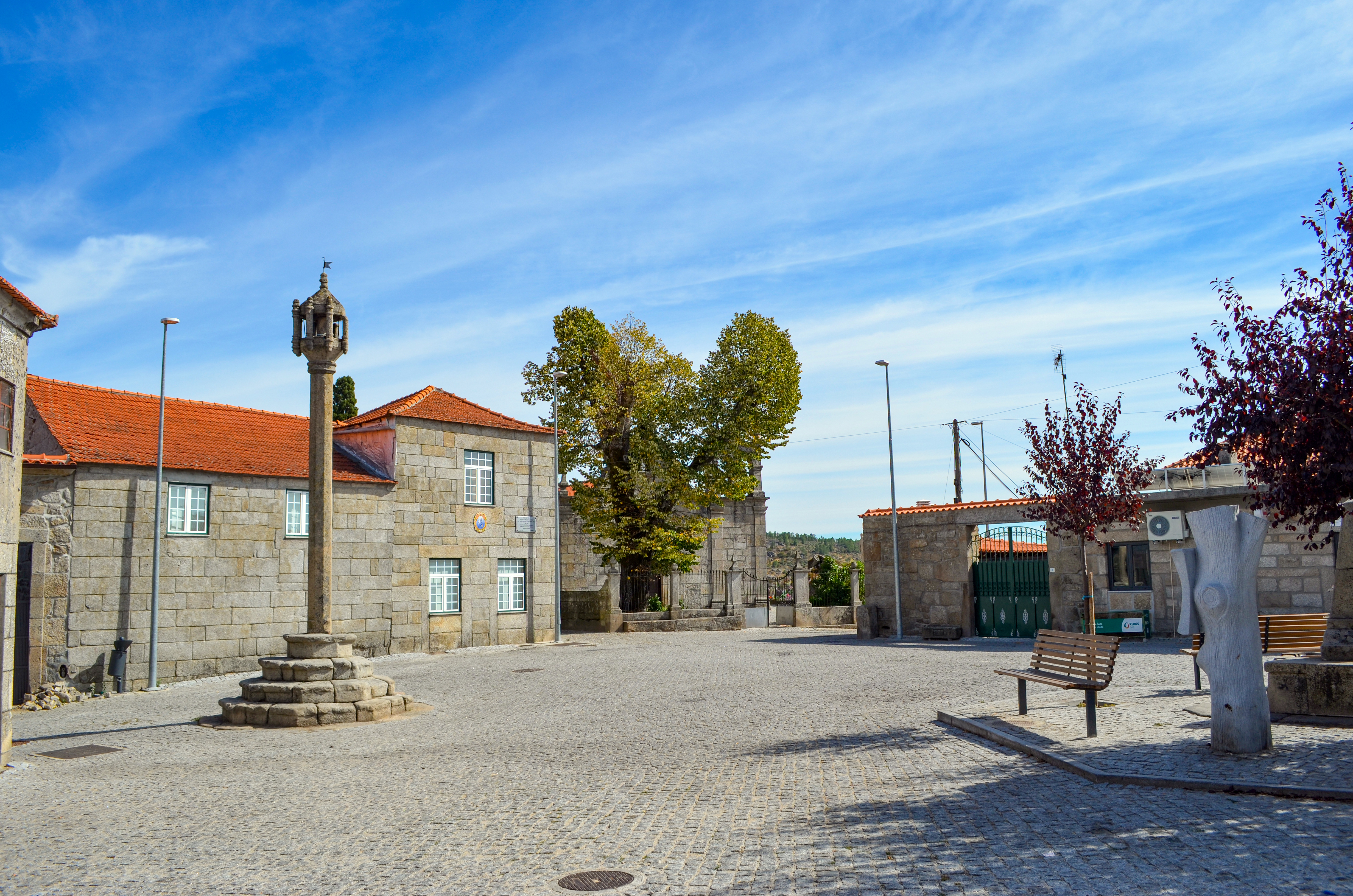 Central square in Carapito.